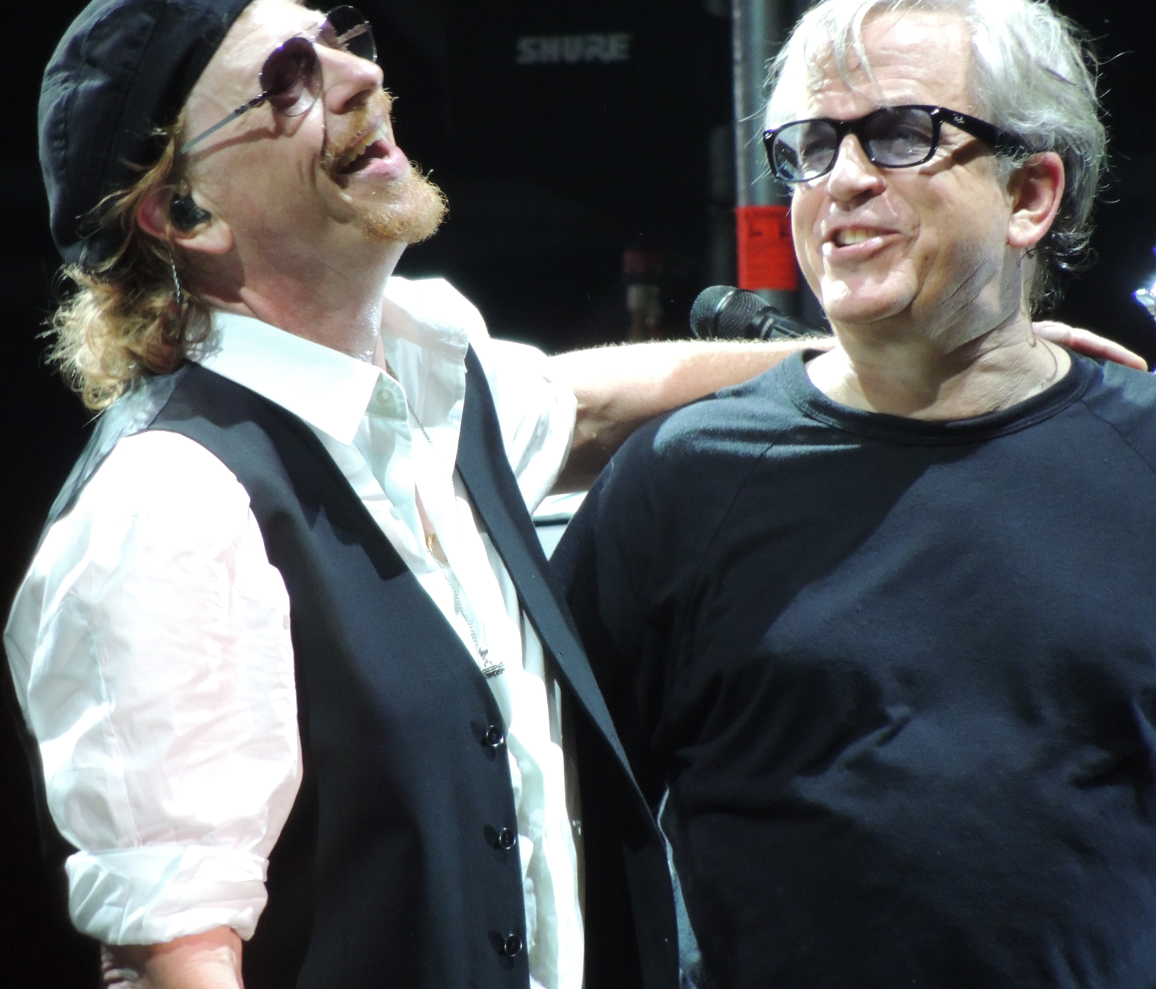 Joseph Williams and Steve Porcaro in Örebro, Sweden July 3, 2013. Toto's 35th Anniversary Tour.